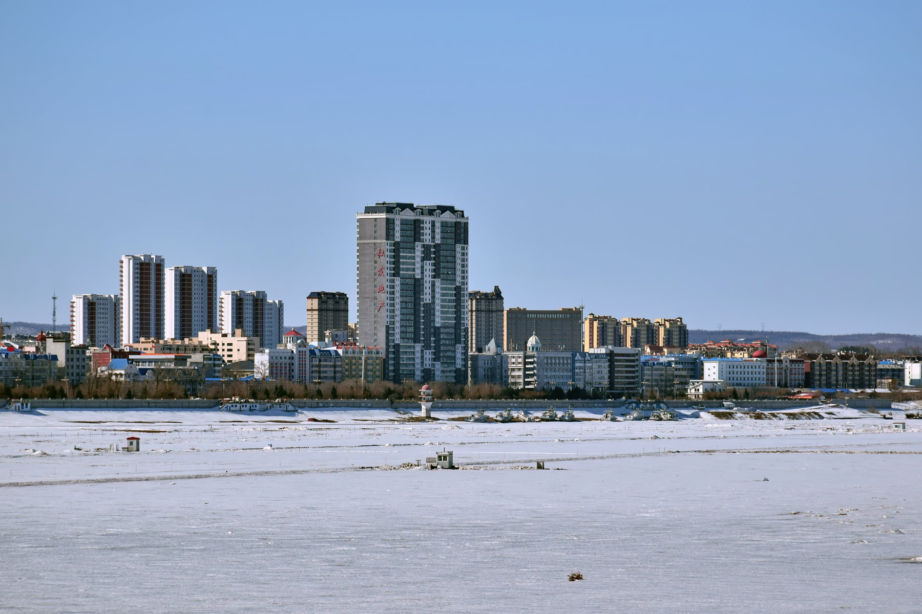 Amur River & Heihe, China, view from Blagoveshchensk, Russia